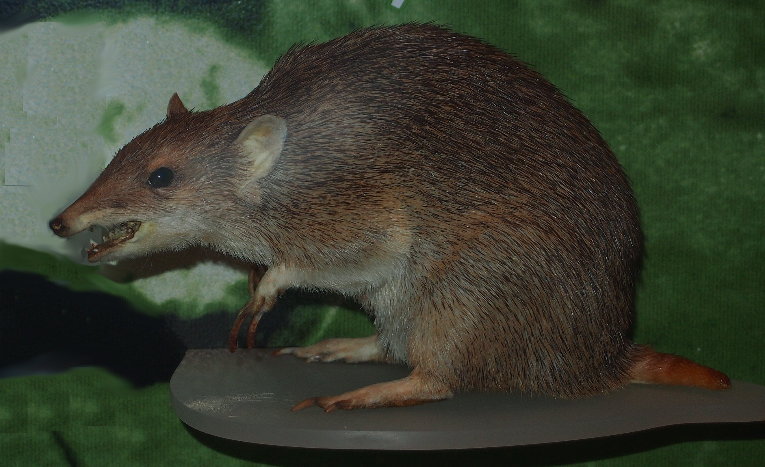 Isoodon auratus, mounted specimen, Central Australian Museum